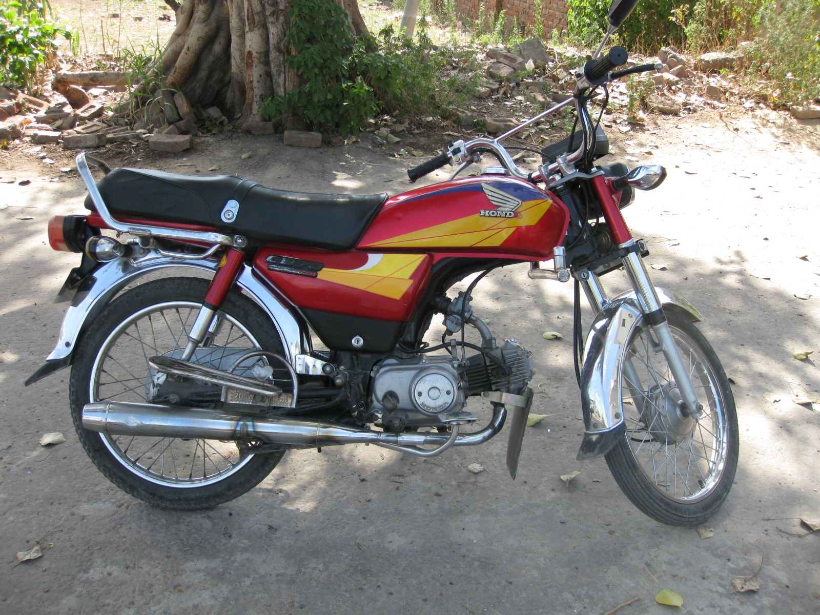 A Honda CD 70 4 stroke motocycle. The Honda CD 70 is in widespread use in Pakistan.